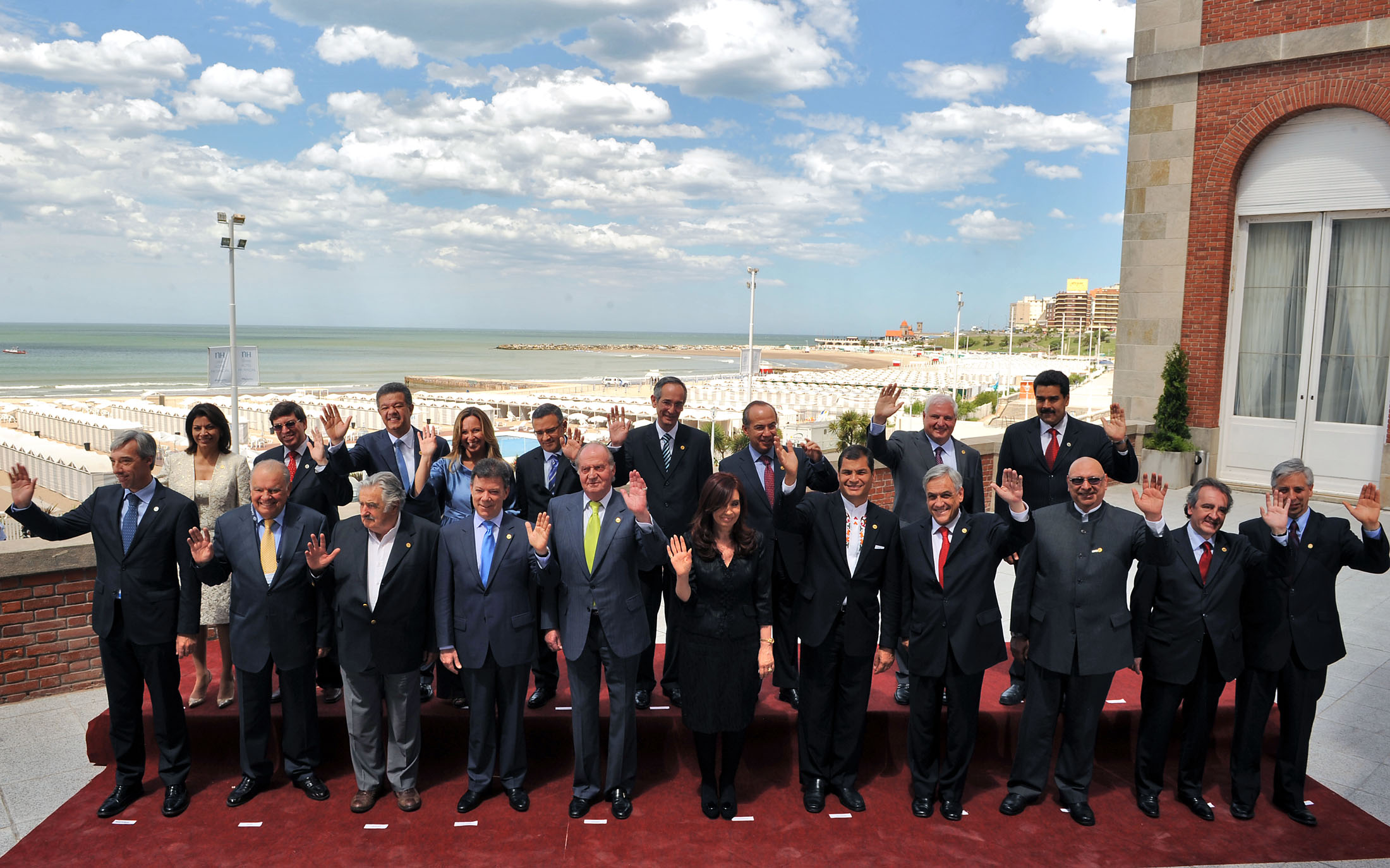 Presidents at the XX Cumbre Iberoamericana at Mar del Plata, Argentina